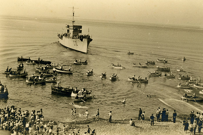 C 12 Procellaria